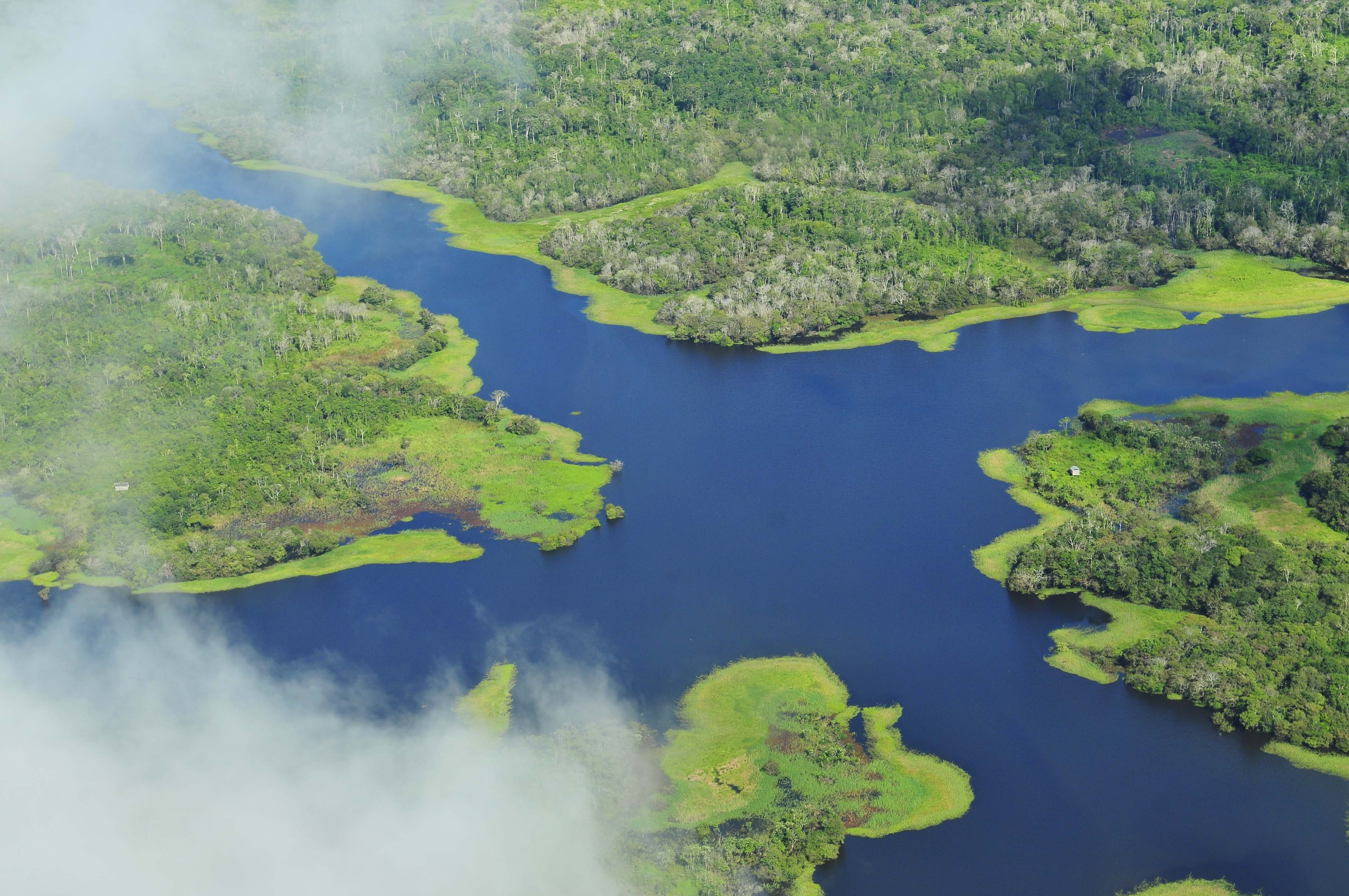 Pic by Neil Palmer (CIAT). Aerial view of the Amazon Rainforest, near Manaus, the capital of the Brazilian state of Amazonas. Please credit accordingly.